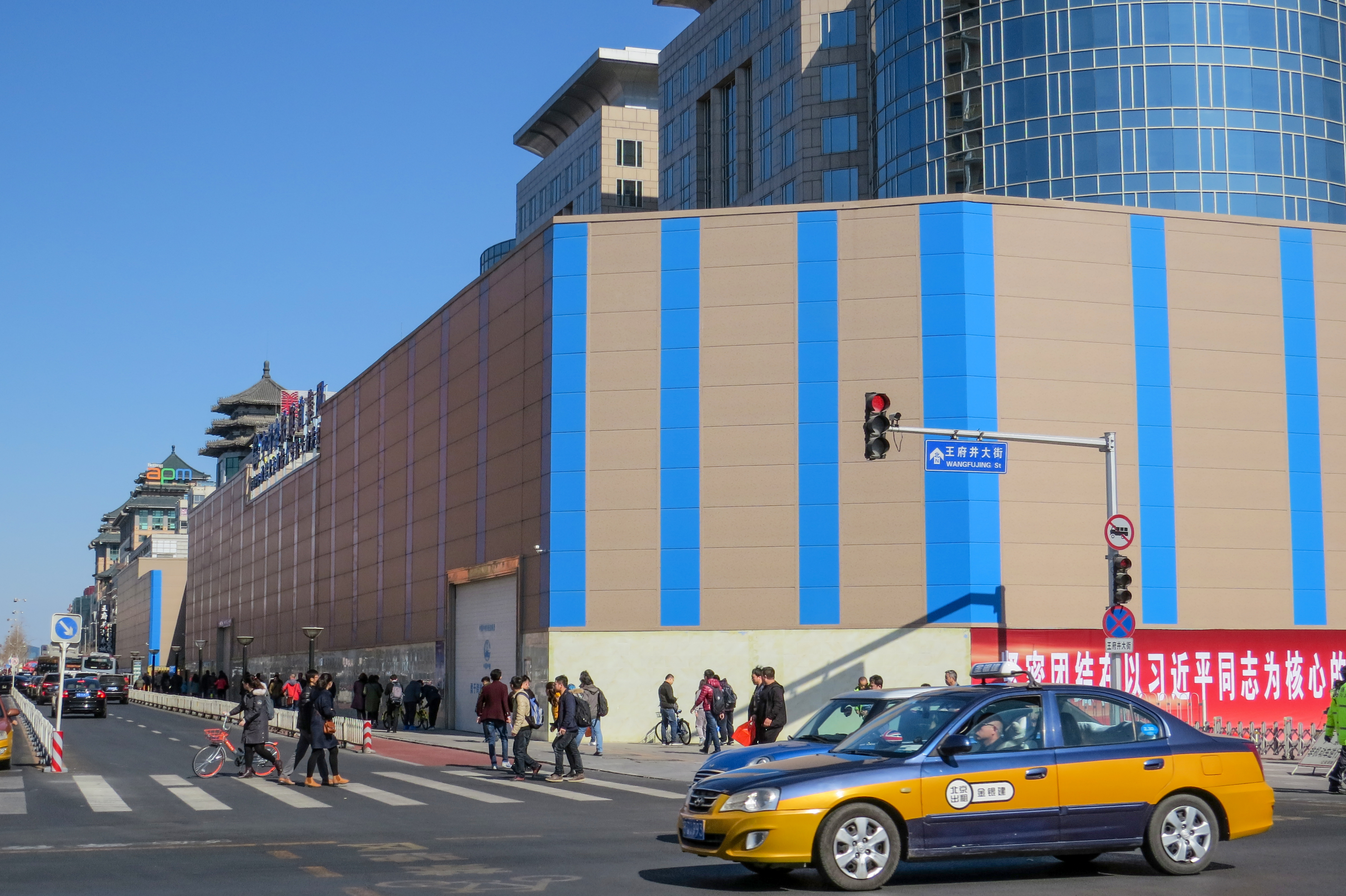 Groovy block!